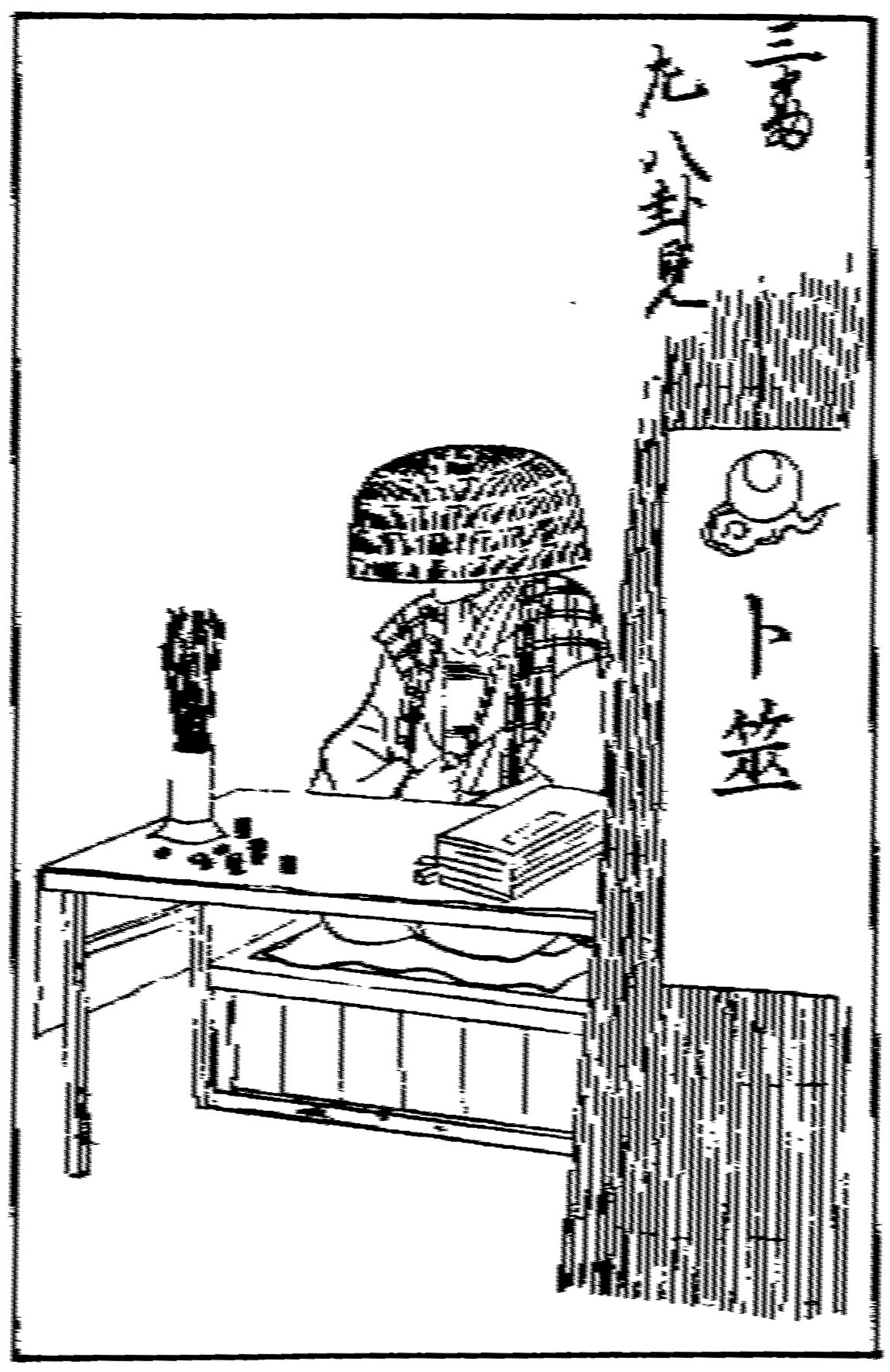 Japanese fortune teller